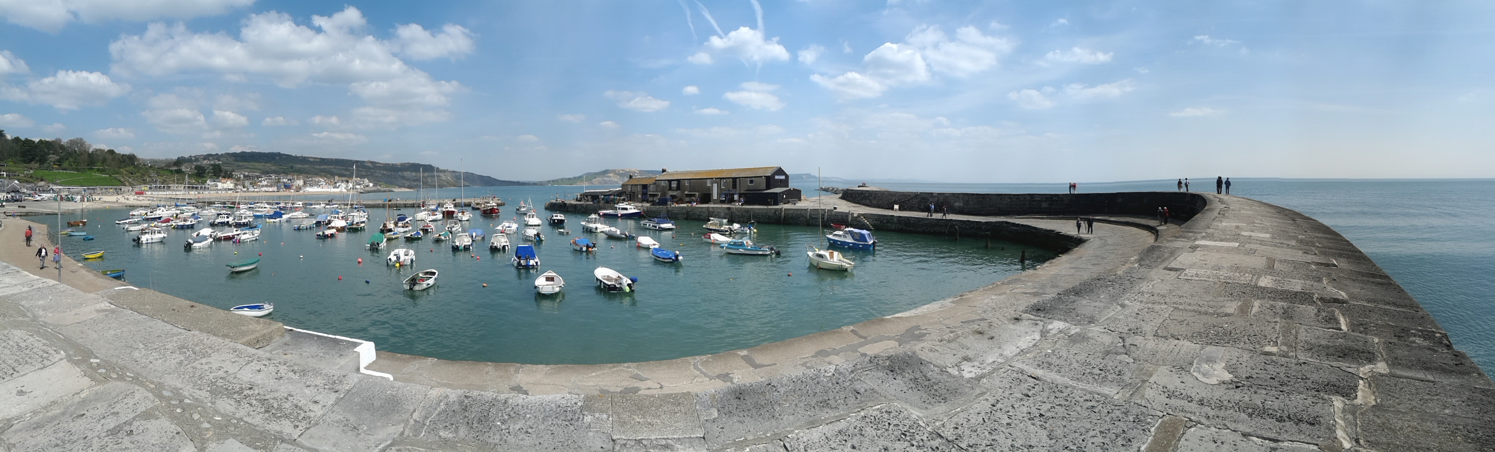 Lyme Regis Fossil Festival